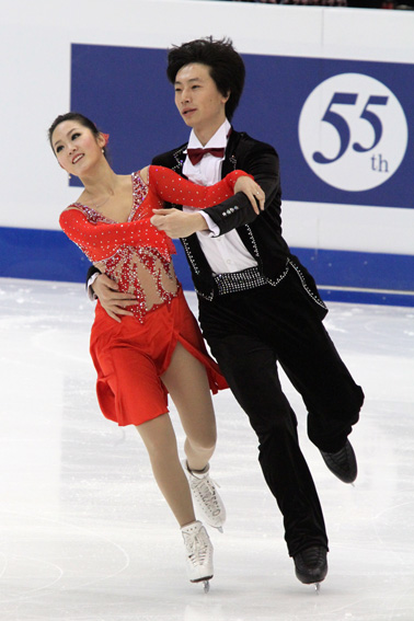 Yu Xiaoyang and Wang Chen at the 2011 Four Continents Championships.